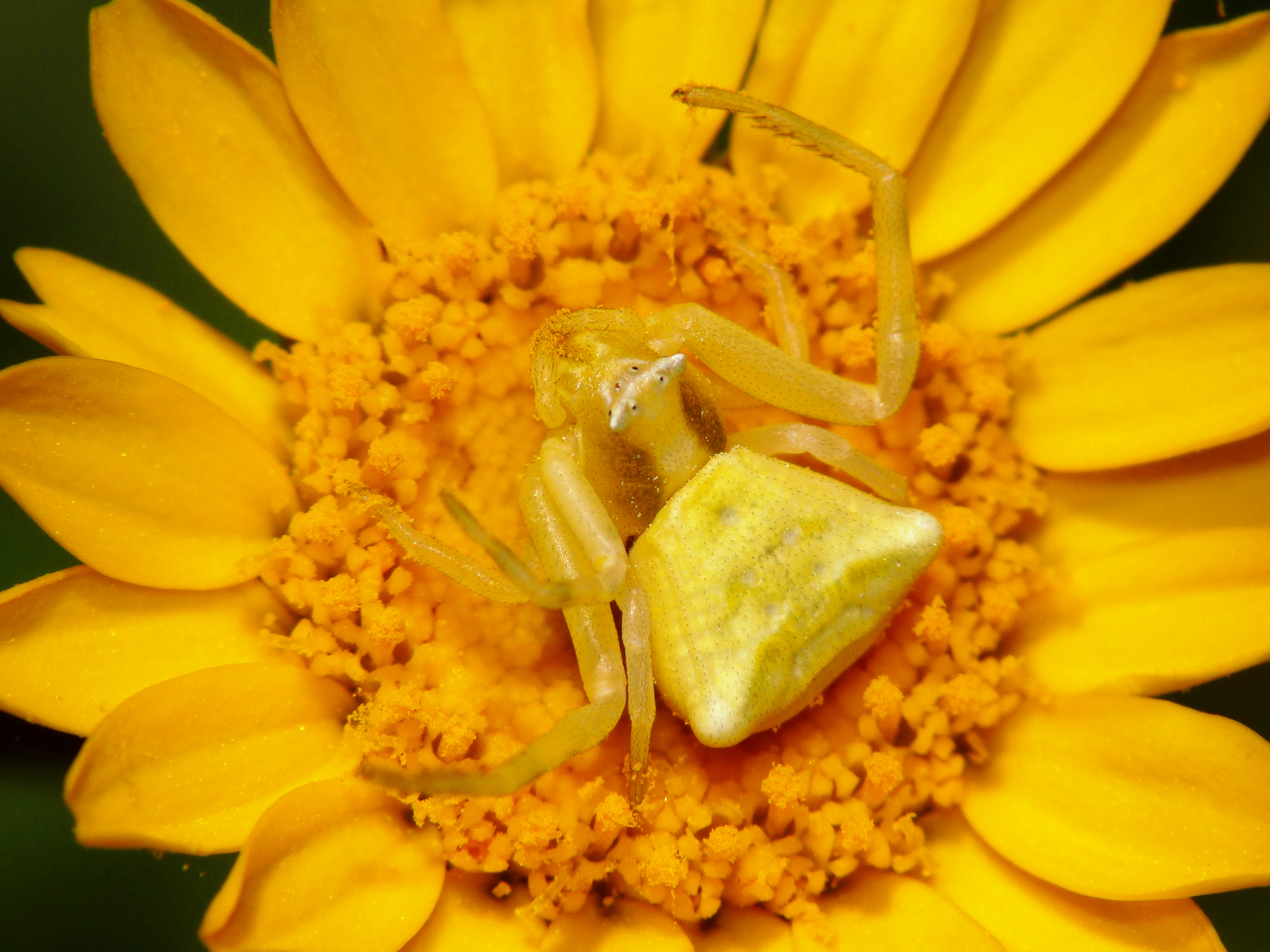 Thomisus onustus, female, near Livorno, Tuscany, Italy